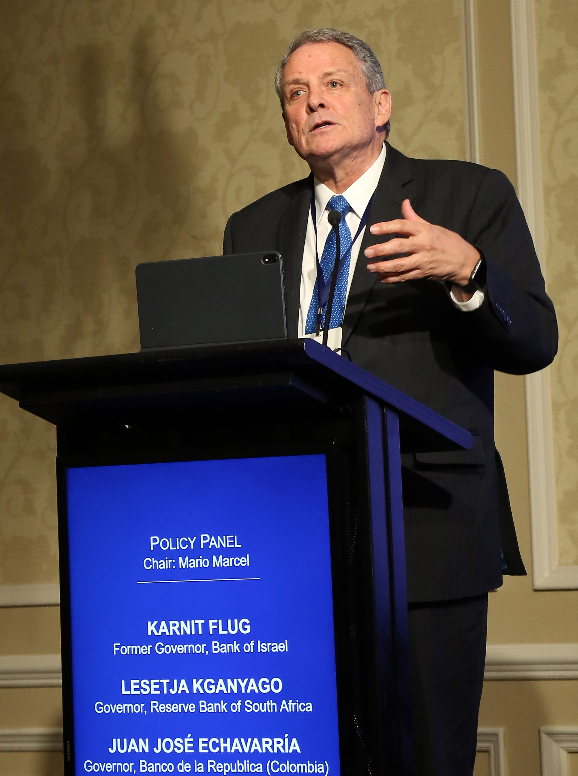 XXIII Annual Conference of the Central Bank of Chile “Independence, Credibility, and Communication of Central Banking”. Santiago, 22 de julio de 2019.